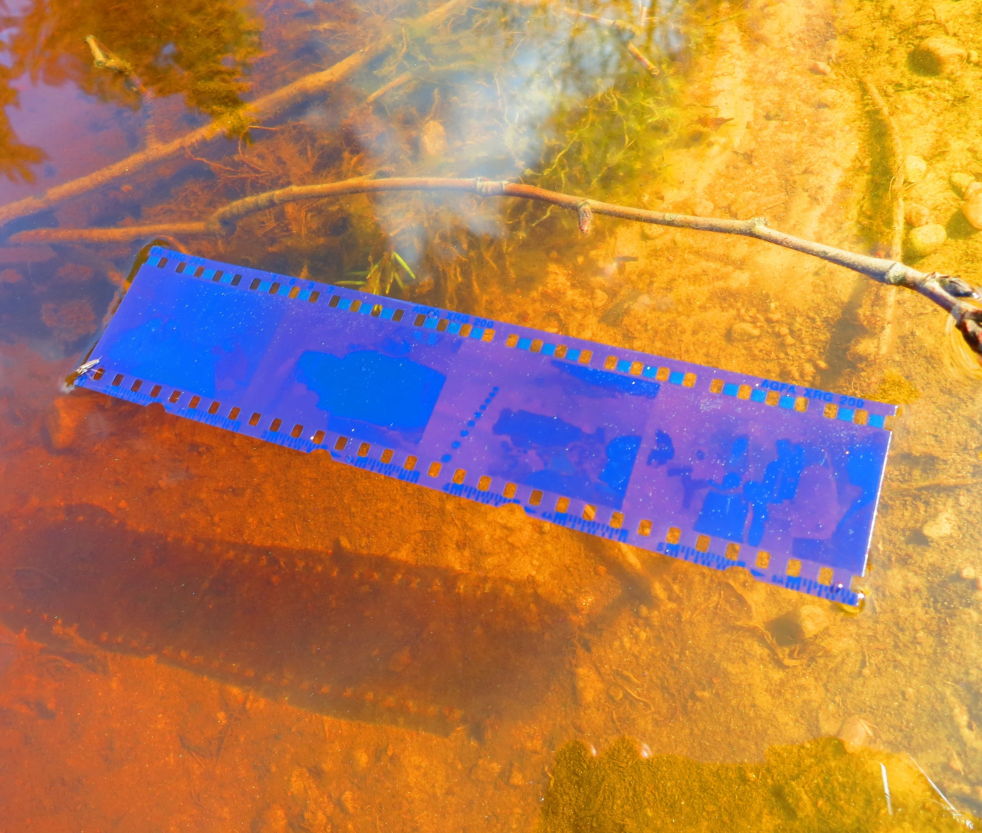 Agfa XRG 200 filmstrip